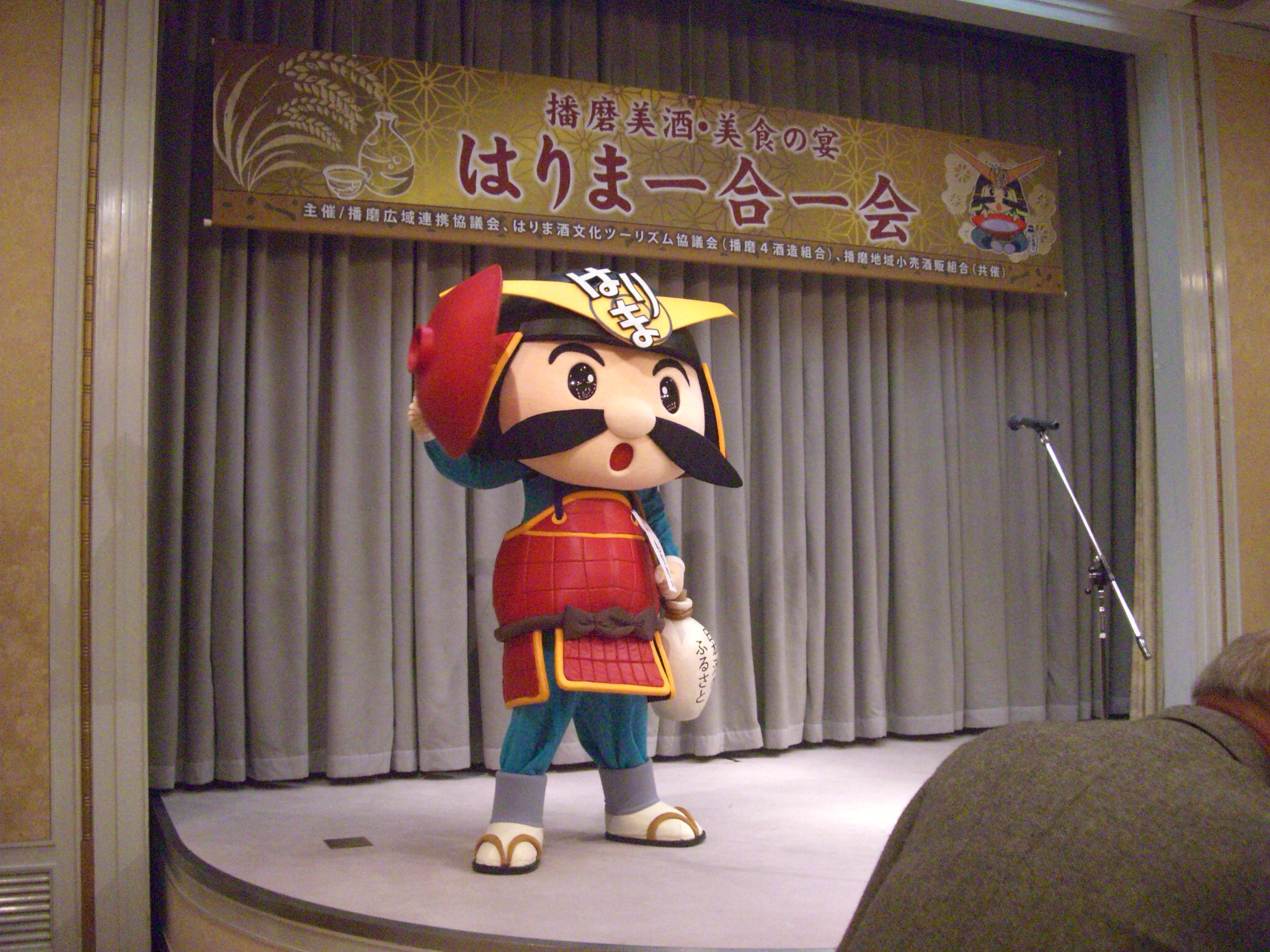 molilie at ichigo ichie held in himeji chamber of commerce on 2/28/14